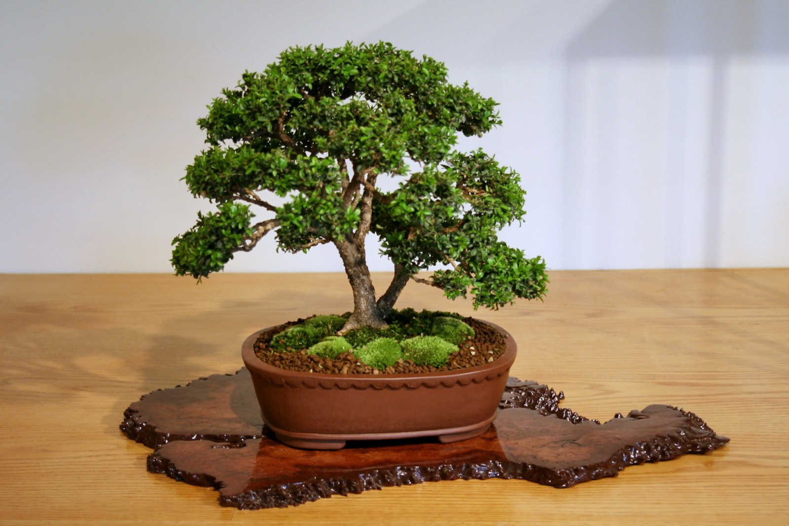 Informal upright style 5 years in training